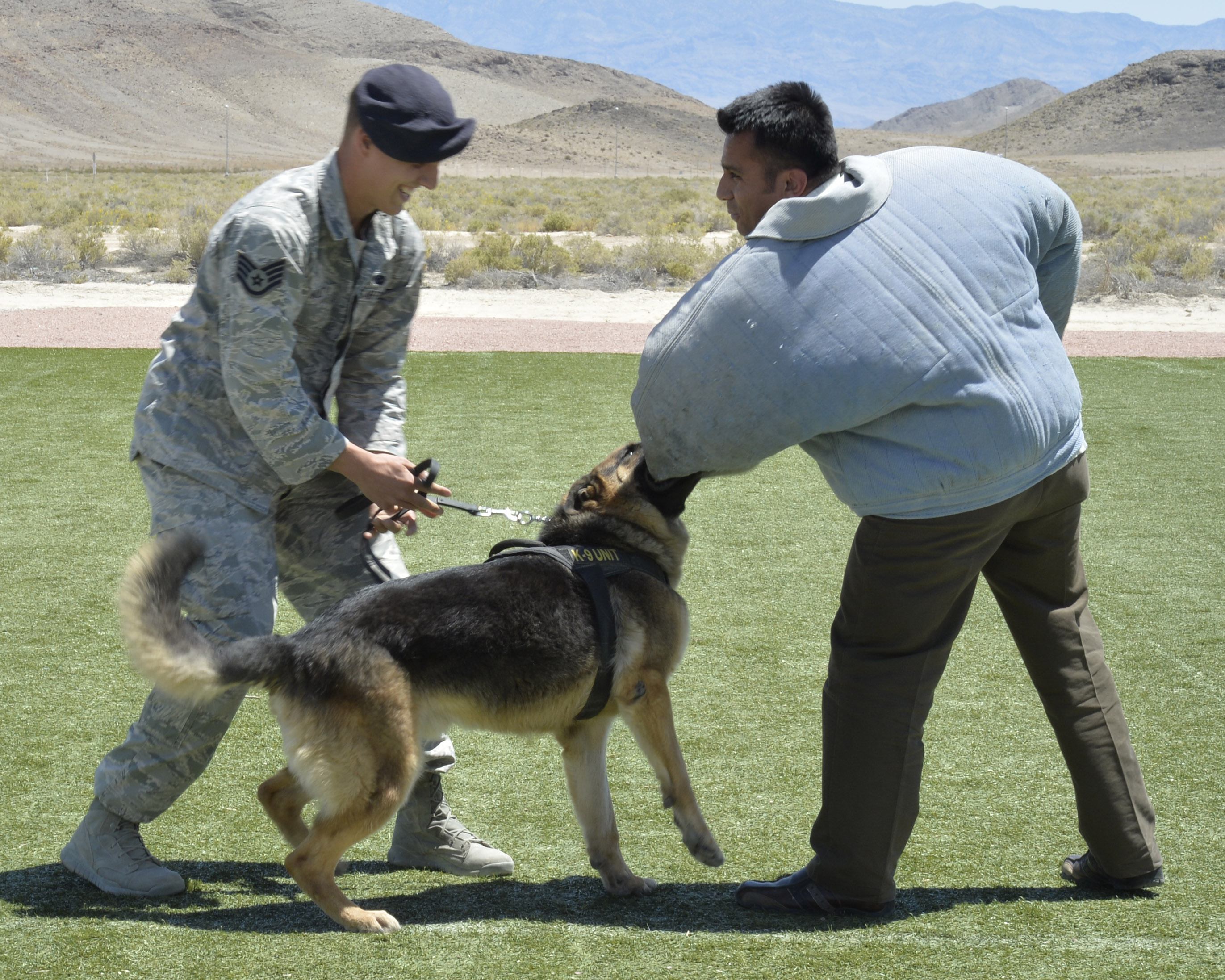 Alejandro, right, a Creech Air Force Base member, participates in a military working dog demonstration during National Police Week May 13, 2014. Police Week is a nation-wide event proclaimed by the president of the United States during the week of May 15 each year to recognize all law enforcement officers who have paid the ultimate sacrifice (Last names have been withheld for security reasons). (U.S. Air Force photo by Staff Sgt. A.K./Released)